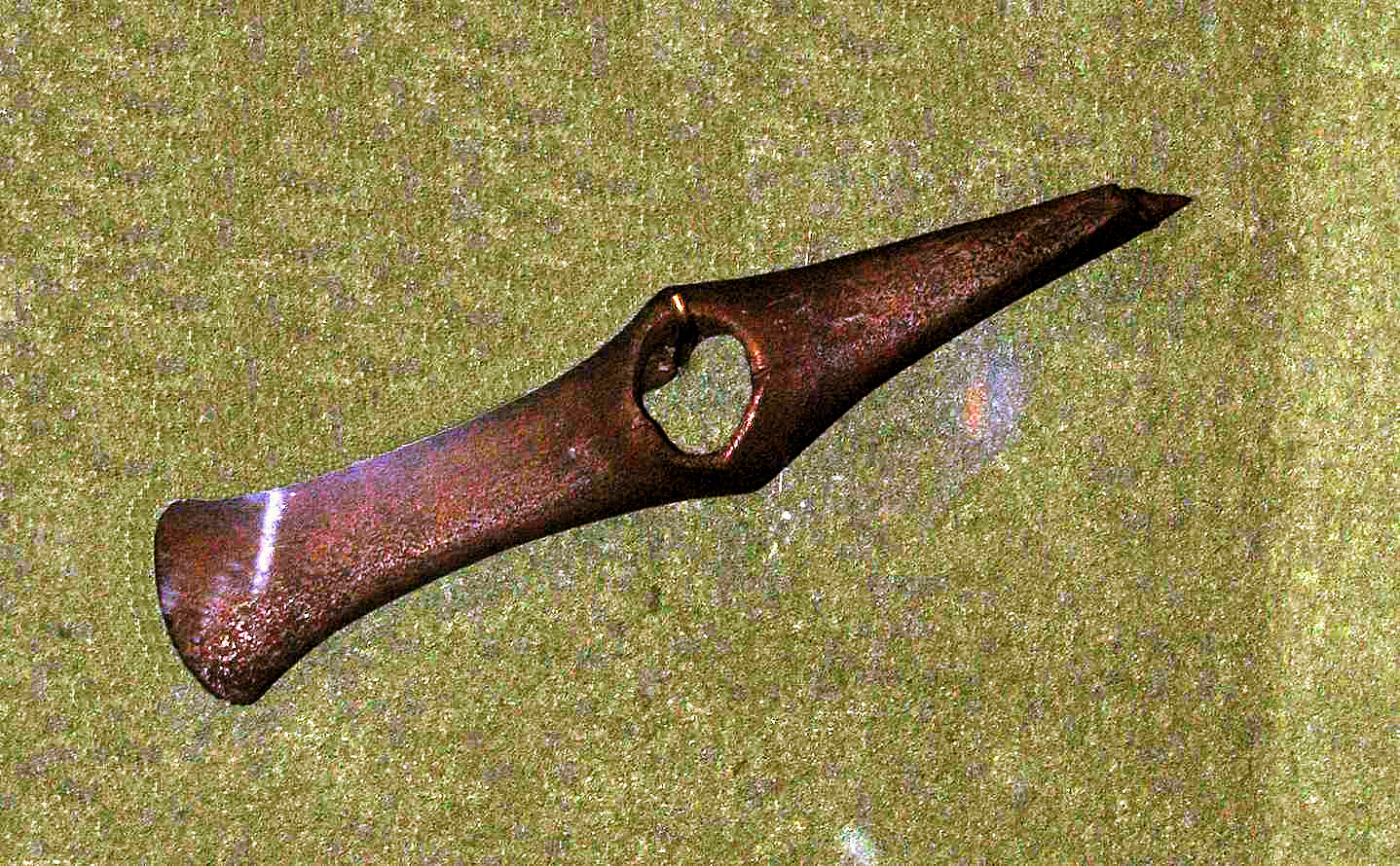 Copper axe from the copper age; found in the territory of the Hungarian town Hajdúdorog. I took this picture in the local historical museum. The original picture was modified two times as I cut down the edges of the picture (Microsoft Picture Manager) and modified the background of it (Paint).